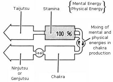 A diagram showing Chakra generation in Naruto.